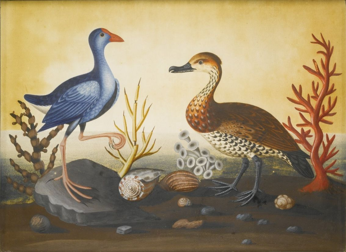 embossed bird picture attributed to Samuel Dixon